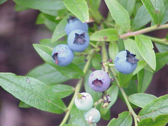 Species: Vaccinium angustifolium Family: Ericaceae Image No. 1